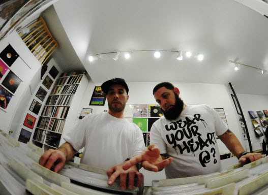 Constant Deviants record store day April 2012